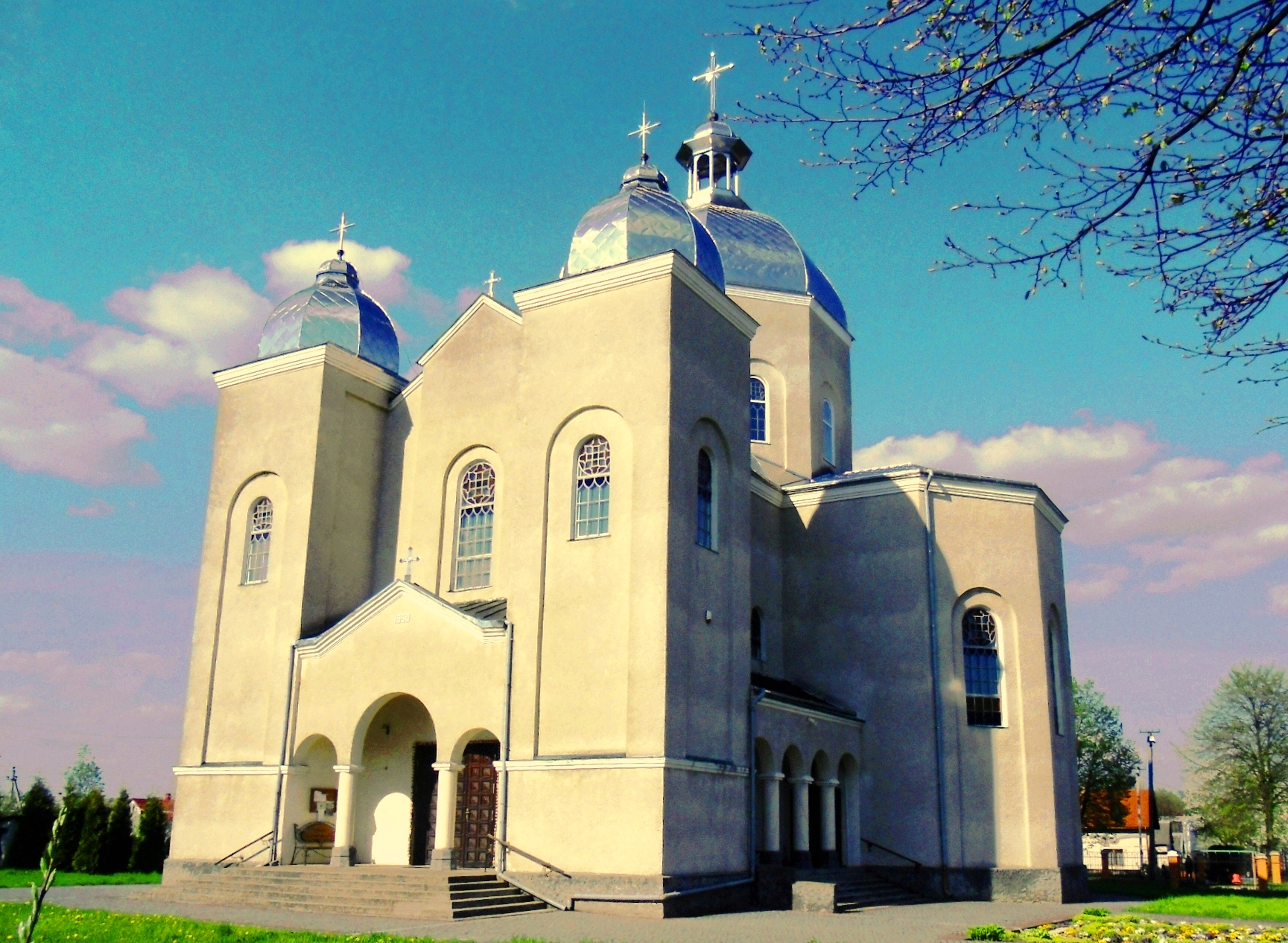 Temple of Saints Peter and Paul. Basivka, Pustomyty Raion.